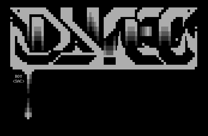 Dytec - Dynamic Technologies - NFO File Ascii by Roy/SAC Source [1]